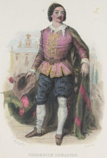 Frédérick Lemaître as Don César de Bazan, Théâtre de la Porte Saint-Martin (1844)